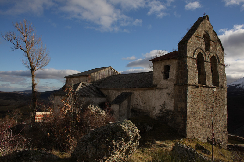 San Cristobal Church